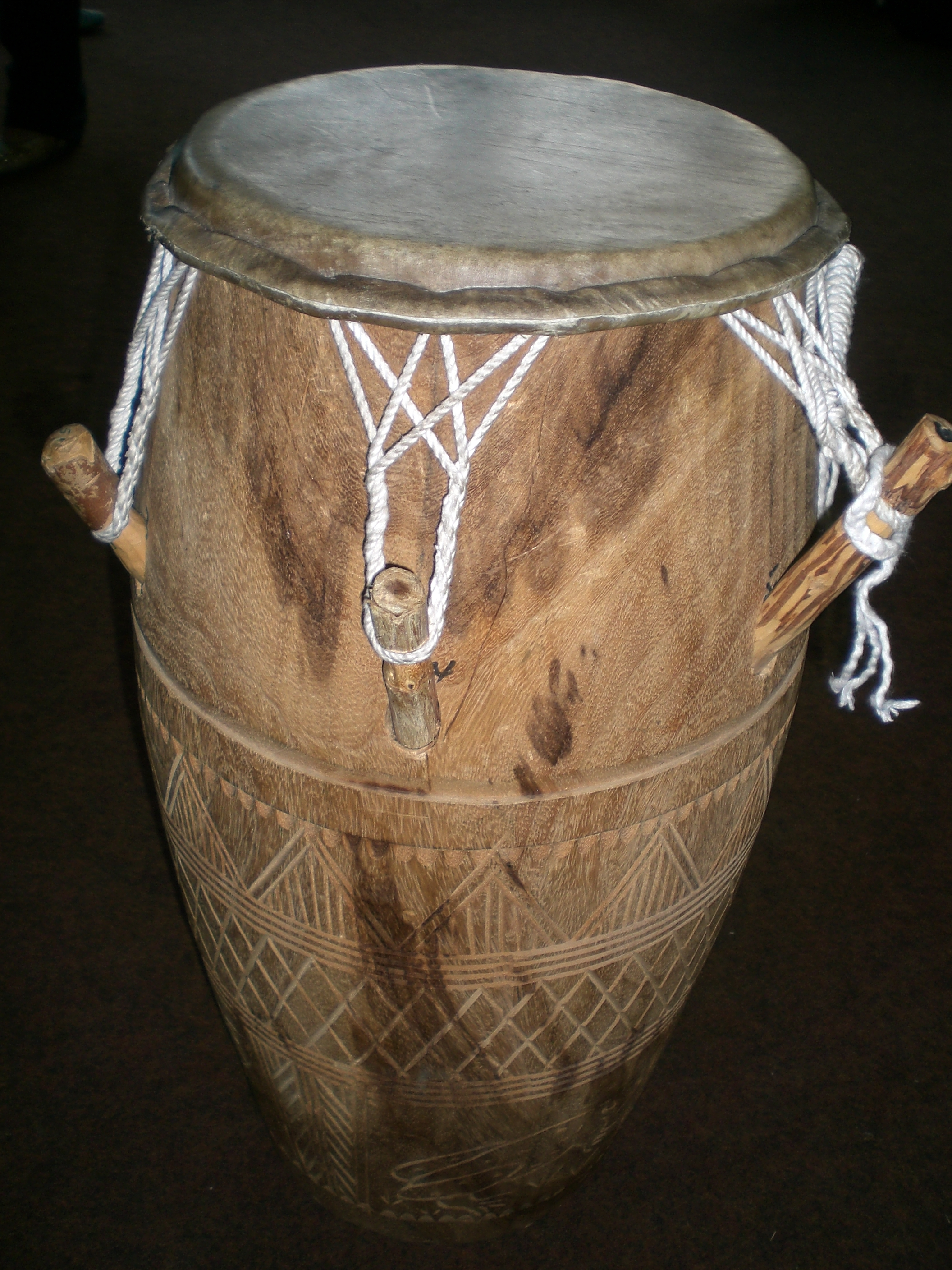 a Kpanlogo (Percussioninstrument from Ghana)